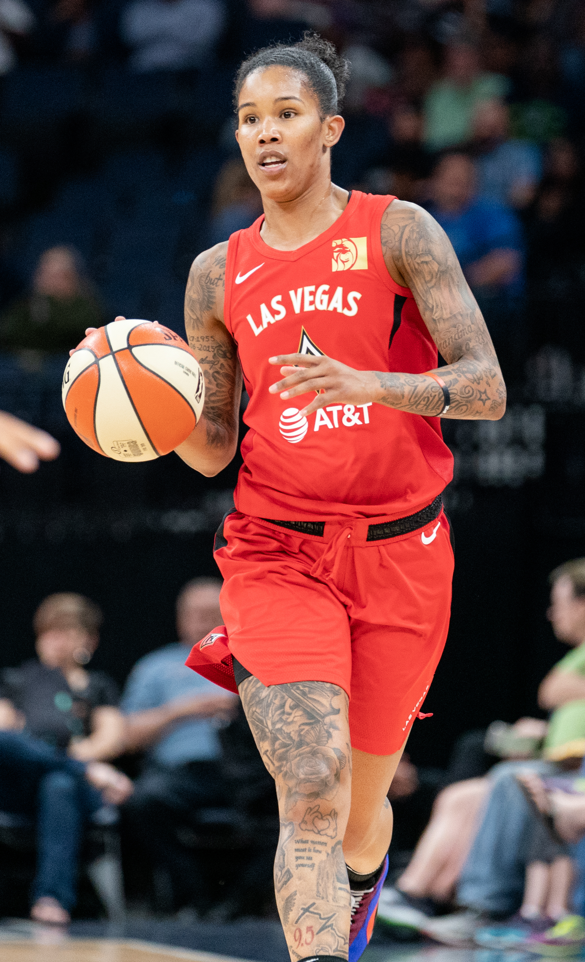 Minnesota Lynx vs Las Vegas Aces at Target Center in Minneapolis, MN on June 1 2019; the Aces won the game 80-75.